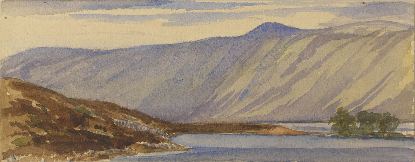 Queen Victoria, Queen of the United Kingdom (1819-1901) Loch Muick from the Glassalt dated 12 Oct 1867 Pencil, watercolour | RCIN 980042.w A watercolour showing a view of Loch Muick from the Glas-allt Shiel. The loch is shown in the foreground to the lower right, with some of the banks shown to the left. Steeply sloping hills are shown behind. Inscribed to the left of mounted sheet: Loch Muick from the Glassalt Oct 12 1867. While staying at Balmoral Queen Victoria made many expeditions to local beauty spots. On 12 October 1867 the Queen went fishing at Loch Muick with her son Prince Leopold, daughter Princess Helena and son-in-law Prince Christian of Schleswig-Holstein. In her journal entry of that day, Queen Victoria describes how at Loch Muick they "took our luncheon & some of the fish were broiled over an open fire, & were quite excellent... Lenchen [Princess Helena] & I sat & sketched".